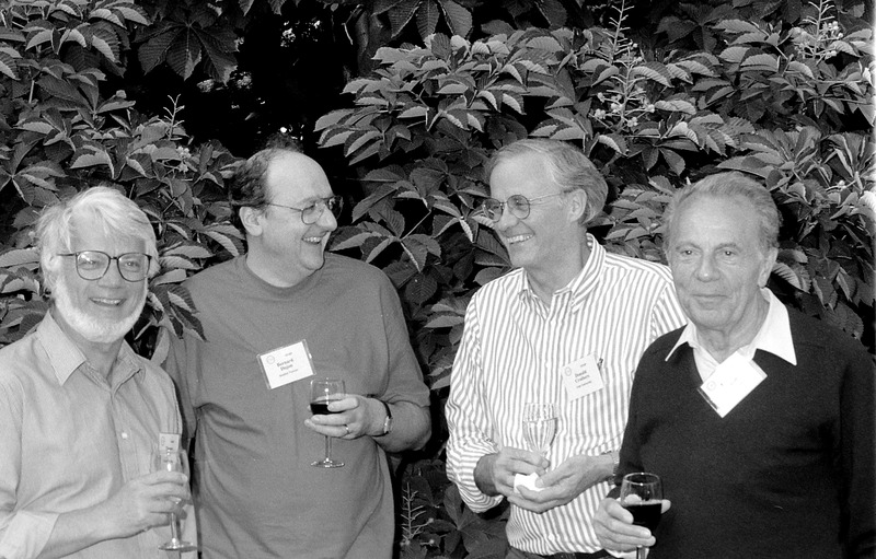 At a Cold Spring Habor meeting